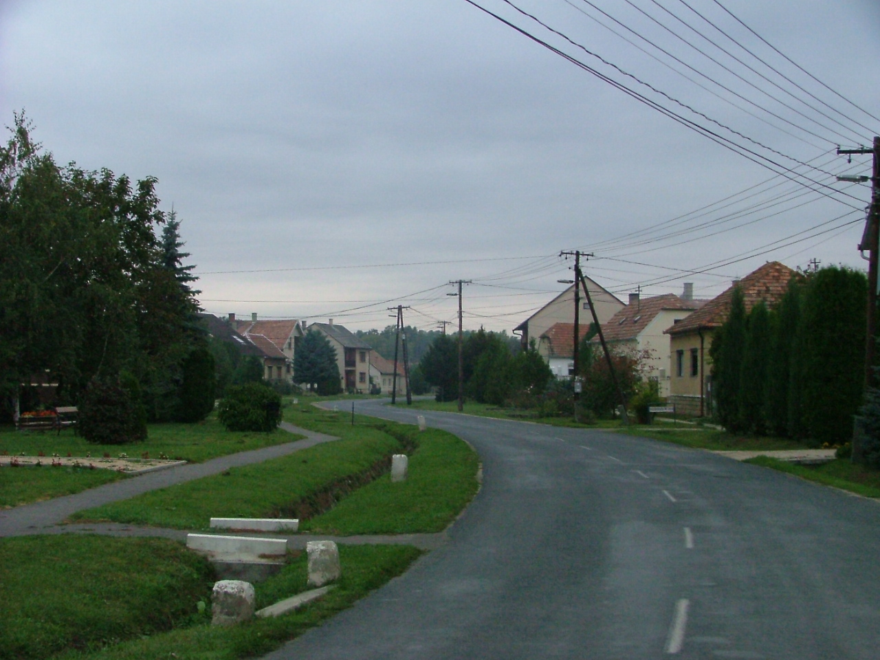 Veszkény, Fő utca (Main street), public park